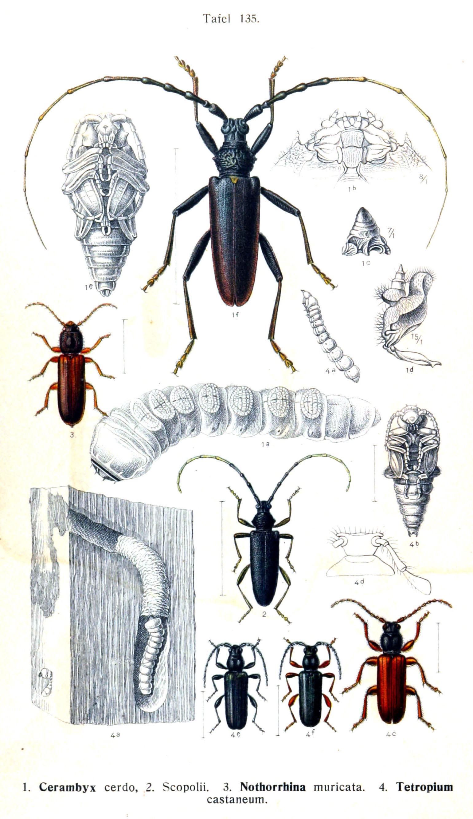 See image for index to numbers. Cerambyx cerdo Lin. = Cerambyx cerdo Linnaeus, 1758 (1a: larva, dorsolateral view, 1b: mouthparts of larva, ventral view, 1c: abdomen tip of larva [unverified - check], 1d: maxilla of larva [unverified - check], 1e: pupa, ventral view, 1f: adult, dorsal view) Cerambyx Scopolii Füssl. = Cerambyx scopolii Füssli, 1775, adult, dorsal view Nothorrhina muricata Schönh. = Nothorhina muricata (Dalman, 1817), adult, dorsal view Tetropium castaneum Lin. = Tetropium castaneum (Linnaeus, 1758) (4a: larva, lateral view, 4b: pupa, ventral view, 4c: labium of adult[unverified - check], 4d: adult, f. castaneum, dorsal view, 4e: adult, f. aulicum, dorsal view, 4f: adult, f. fulcratum, dorsal view)